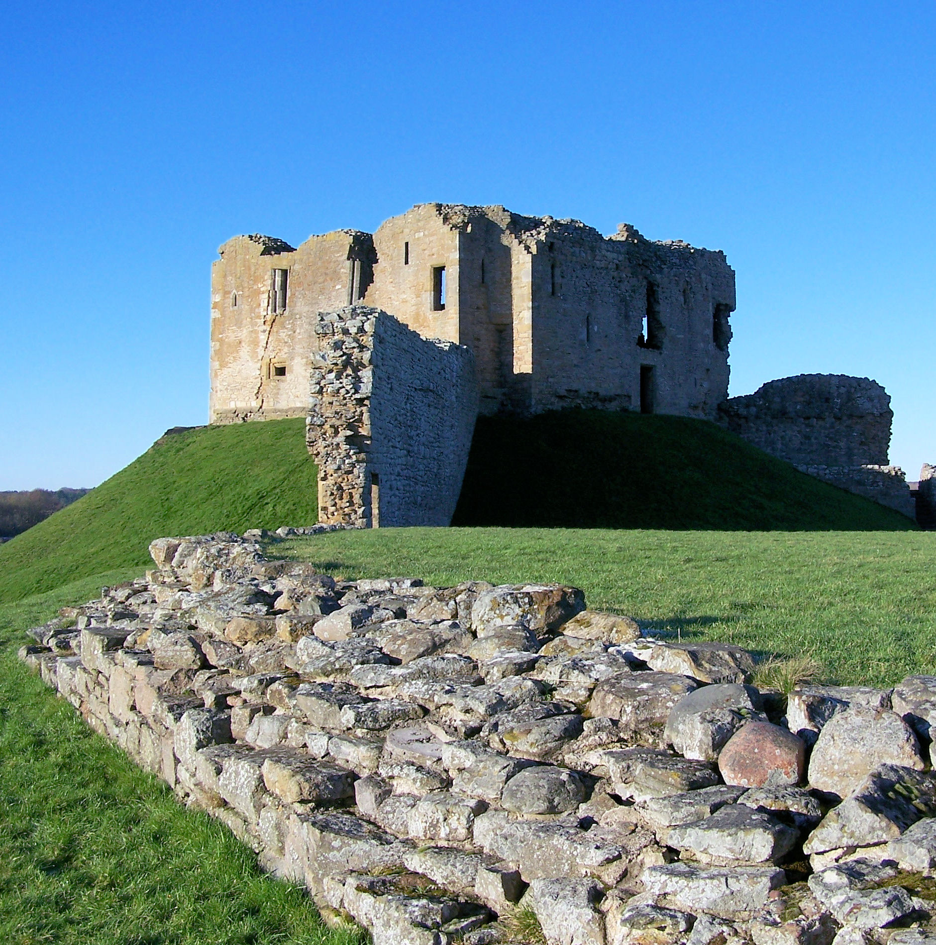 Bill Reid